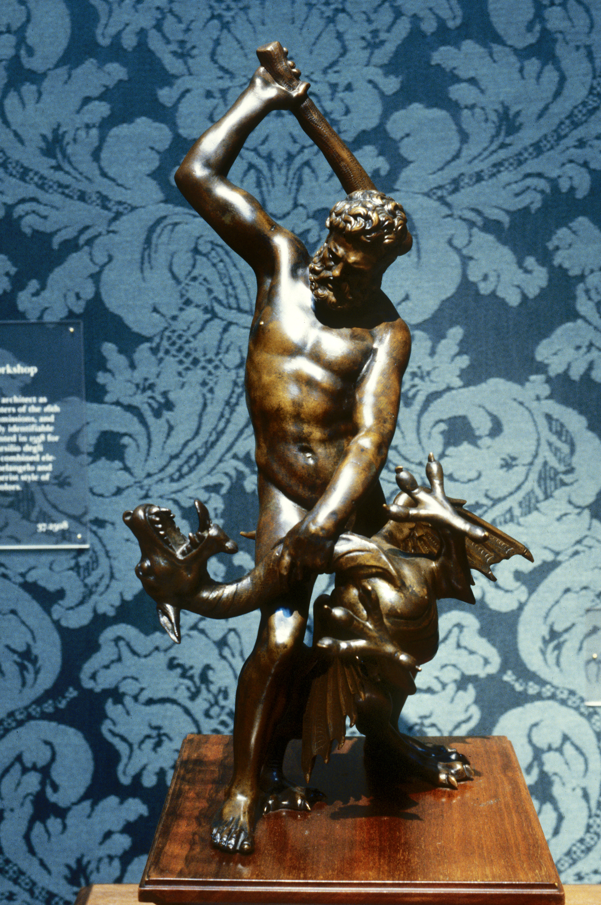 The mythical Greek hero Heracles, known to the Romans as Hercules, was renowned for his great strength and the heroic deeds he performed, which were favorite subjects for painters and sculptors alike. Around 1580, Jean Boulogne (Flemish, 1529-1608), know as Giambologna, produced for Grand Duke Francesco I de' Medici (1541-87) of Tuscany a set of bronze statuettes of the Twelve Labors of Hercules, deeds which King Eurystheus ordered him to carry out, assuming them to be impossible. These groups are characterized by highly dramatic poses, with the limbs of the figures spiraling outwards from center. The smooth surface of the bronze enhances the muscles of Hercules's imposing physique. These figures were extremely popular all over Europe and were replicated in great numbers, beginning in the artist's lifetime and continuing for decades. Individual casts are difficult to date, but the bronzes exhibited here were surely made after the master's death. However, they preserve the character of Giambologna's originals and illustrate the refined taste of the Medici court towards the end of the 16th century. The subject of this unusual and rare statuette is the killing of the dragon Ladon, which guarded the garden of the Hesperides, the nymphs who grew golden apples. Since stealing apples from a tree (the 11th Labor of Hercules) is not as dramatic as a fight with a dragon, this other part of the story was chosen by the artist.